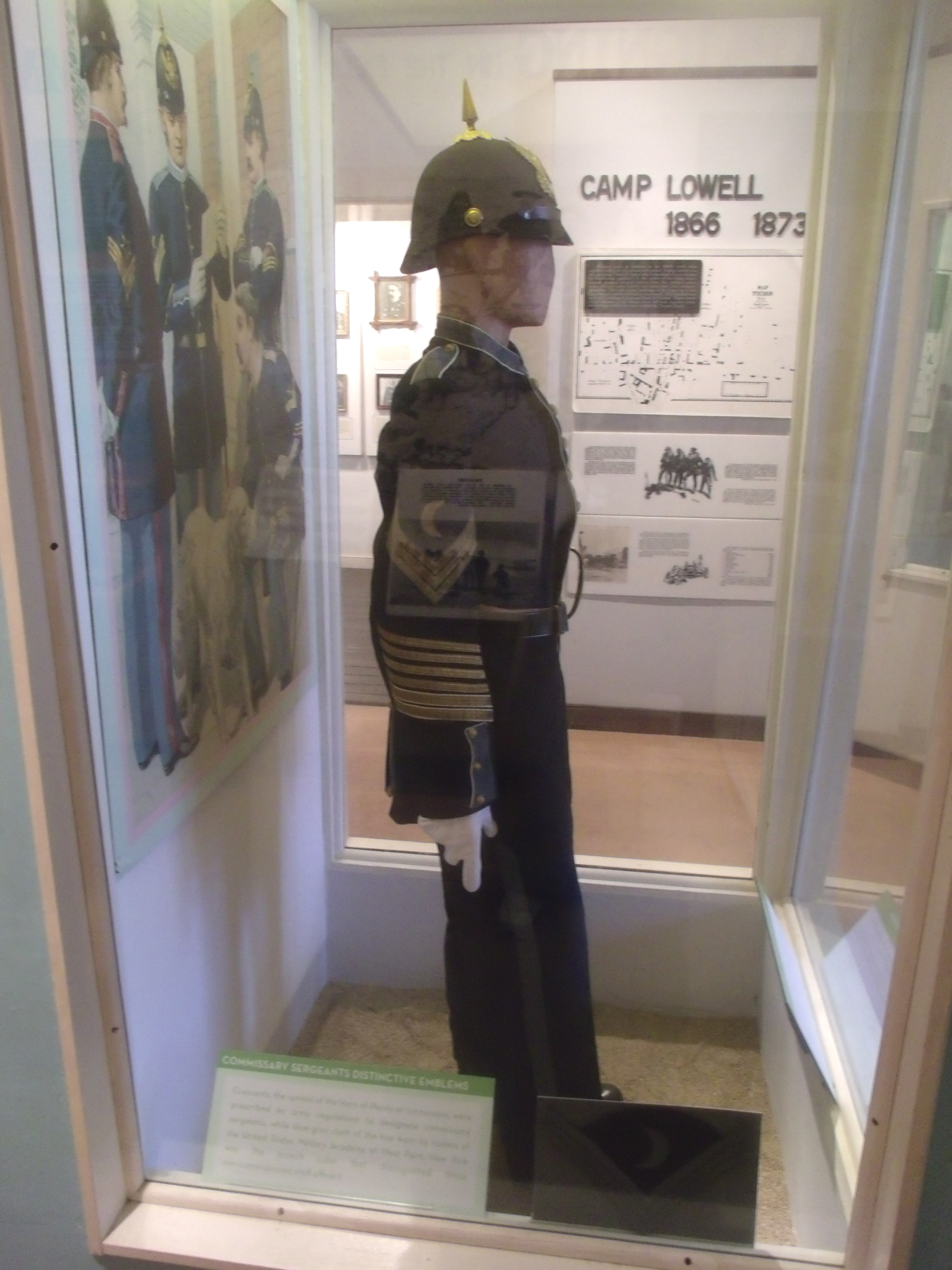 A display of a sergeant uniform in the Fort Lowell Park Museum which was once worned by a member of the 5th Cavalry. The park was listed in the National Register of Historic Places in 1978, ref.: #78003358. The Fort Lowell Park at 2900 N Craycroft Rd. in Tucson, Az. and is listed in the National Register of Historic Places in 1978, ref.: #78003358.